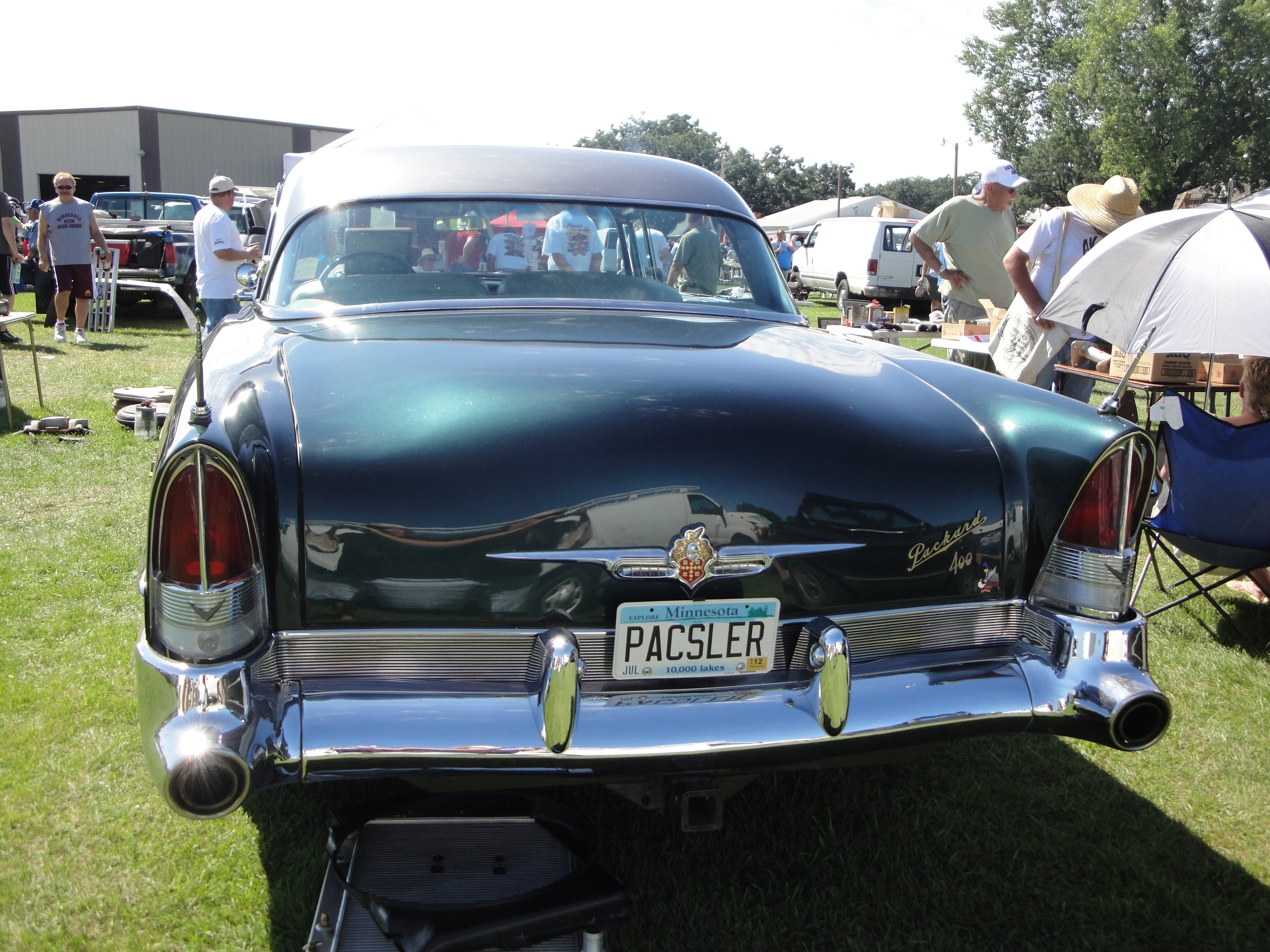 The Pantowners Annual Car Show and Swap Meet Sunday August 21, 2011